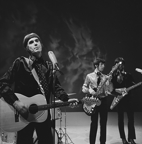 The Kinks in het televisieprogramma Fanclub